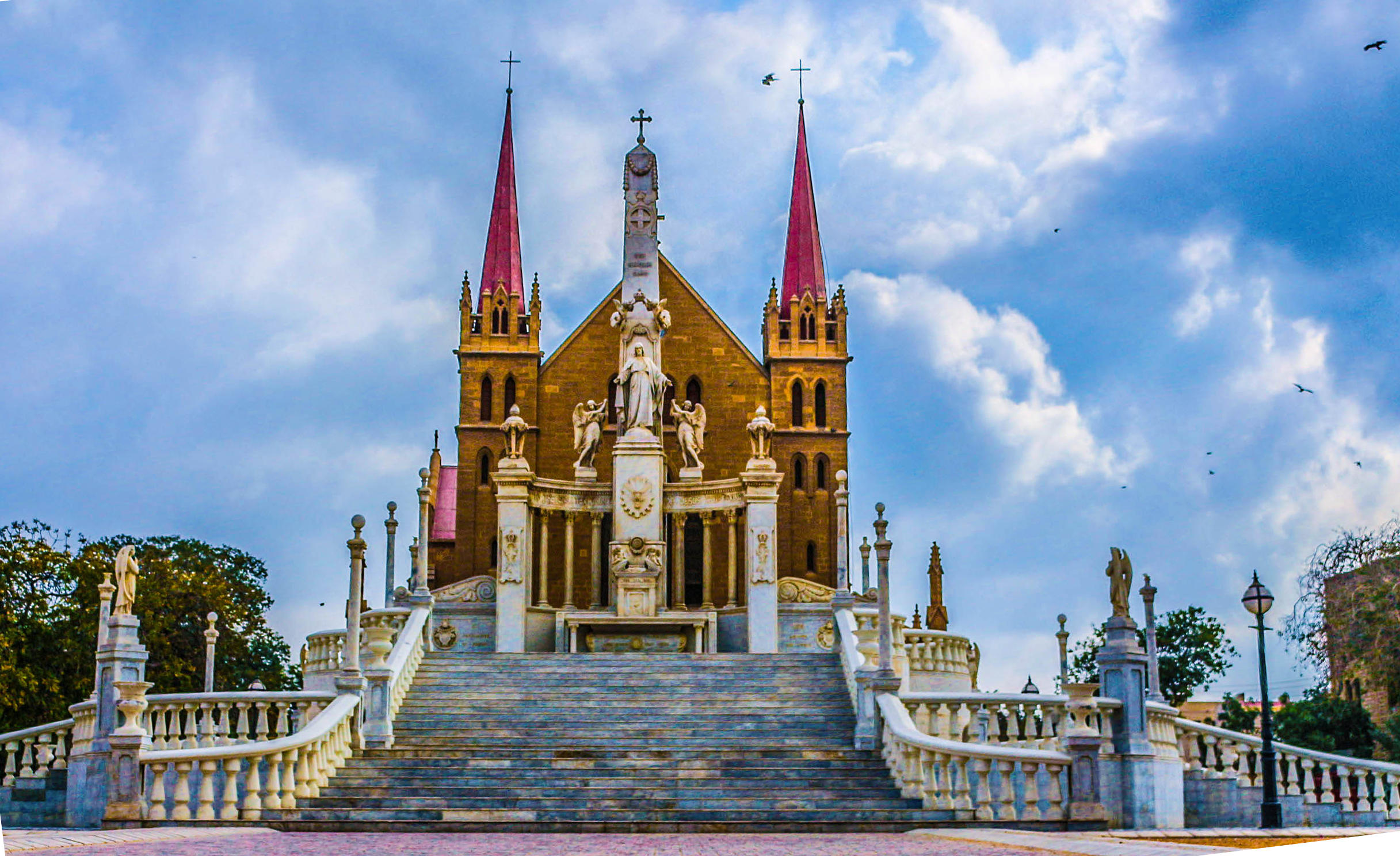 St. Patrick's Cathedral This is a photo of a monument in Pakistan identified as the SD-P-186